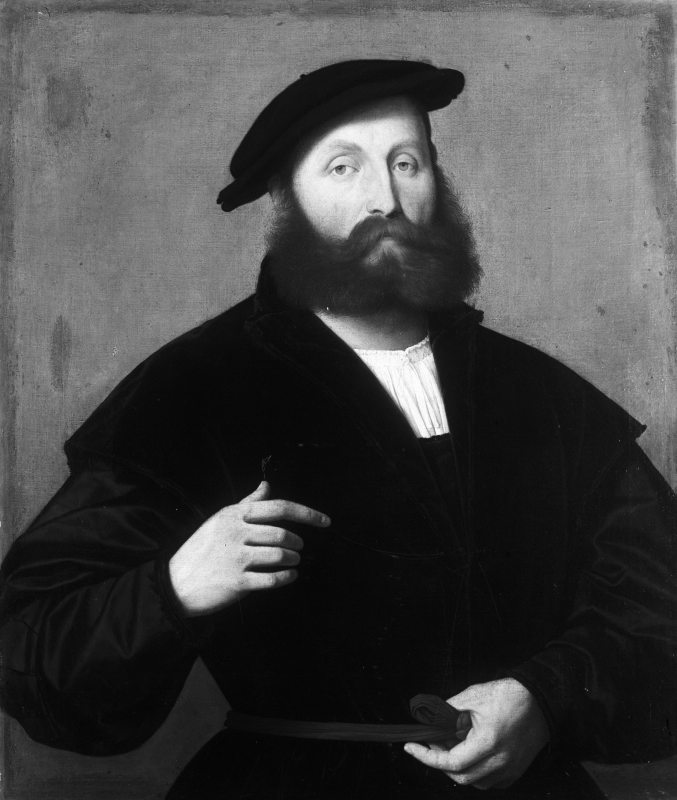 'Portrait of Count Raimund Fugger', by Filippino Lippi, ca. 1520-1525. The painting was destroyed or disappeared in Berlin in May 1945, in the Friedrichshain flak tower fire. - Dimensions: 75 x 63 cm - Oil painting on canvas